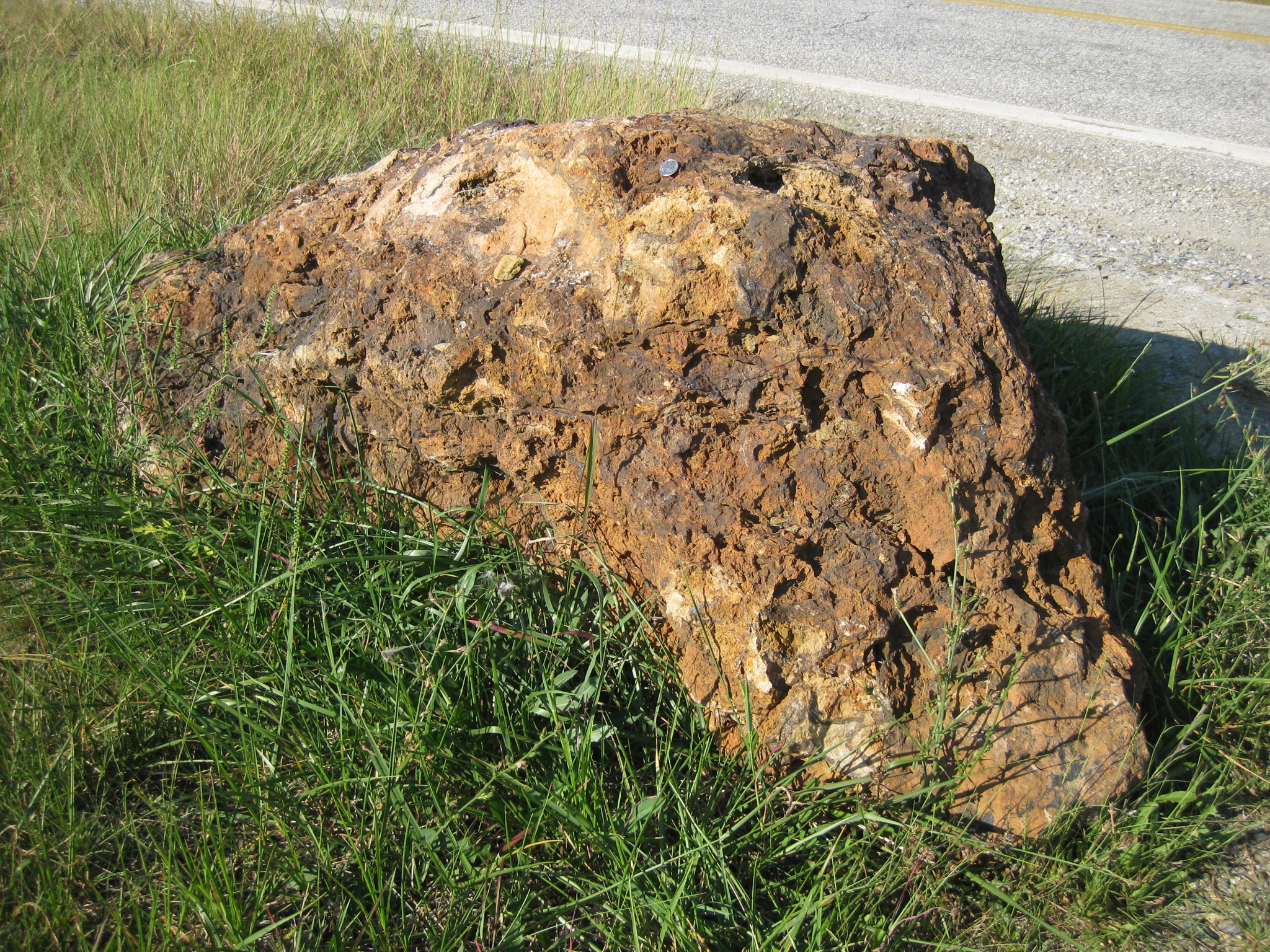 Boulder of Serpentinite — at Soldiers Delight Natural Environmental Area, the "Serpentine Grasslands". The botanical preserve is located in western Baltimore County, Maryland, U.S. Quarter at top for scale. Sept. 2010.